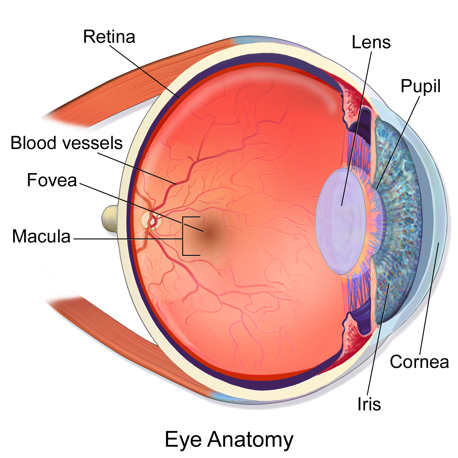 Eye Anatomy. See a related animation of this medical topic.